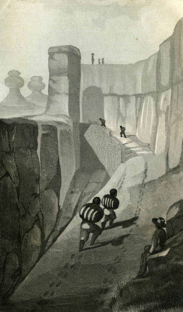 Title: Acoma No. 3 Creator: Abert, J. W. (James William) . Date: 1848 Part Of: Notes of a military reconnoissance from Fort Leavenworth, in Missouri, to San Diego, in California ... Physical Description: 1 engraving: 11 x 19 cm. Form/Genre: Engravings File: f786_u5703_04_acoma3_opt.jpg Rights: Please cite Southern Methodist University, Central University Libraries, DeGolyer Library when using this image file. A high-quality version of this file may be obtained for a fee by contacting . For more information, see: View U.S. West: Photographs, Manuscripts, and Imprints at